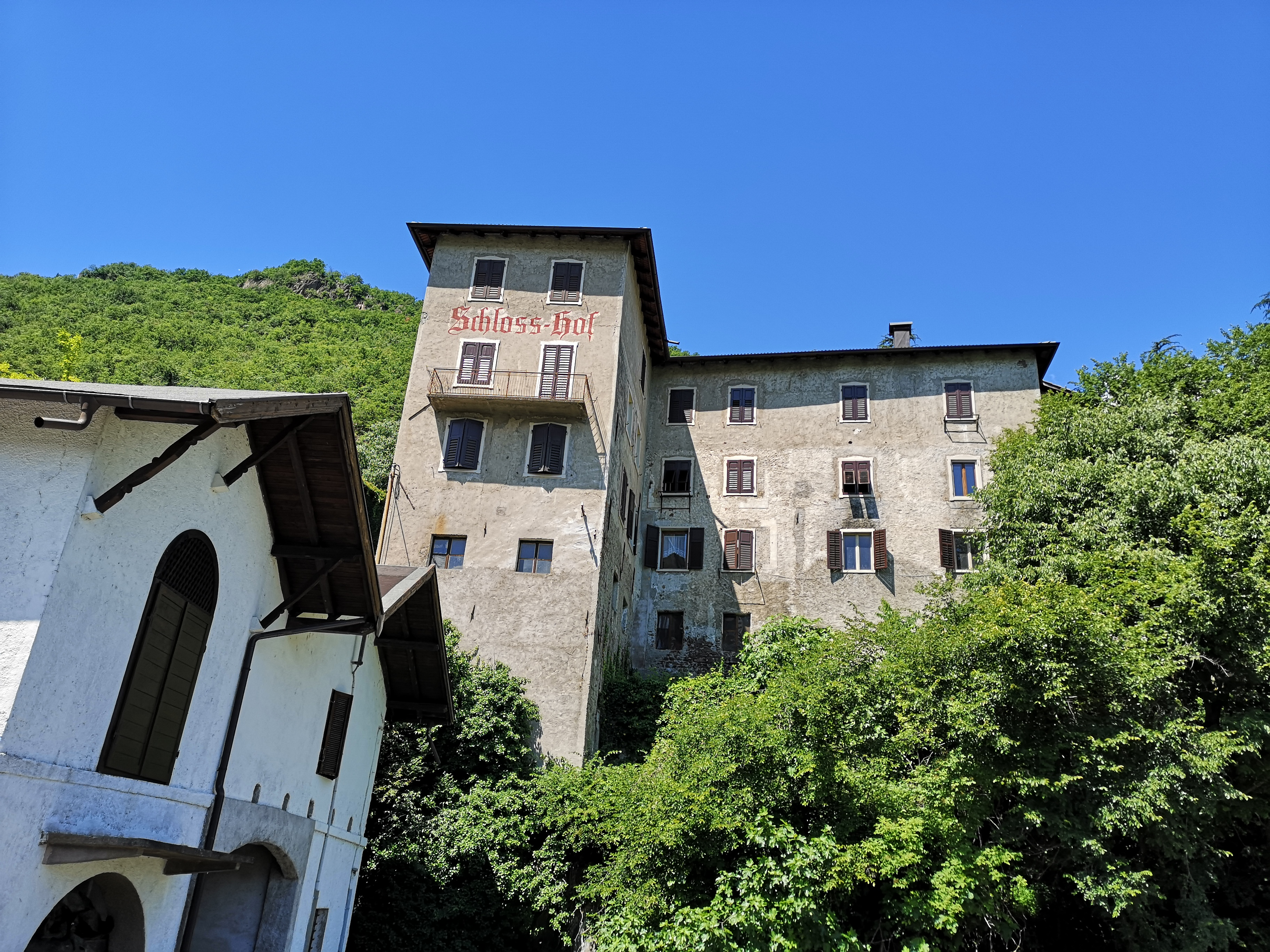 Schloss-Hof in Pfatten (South Tyrol) 2020